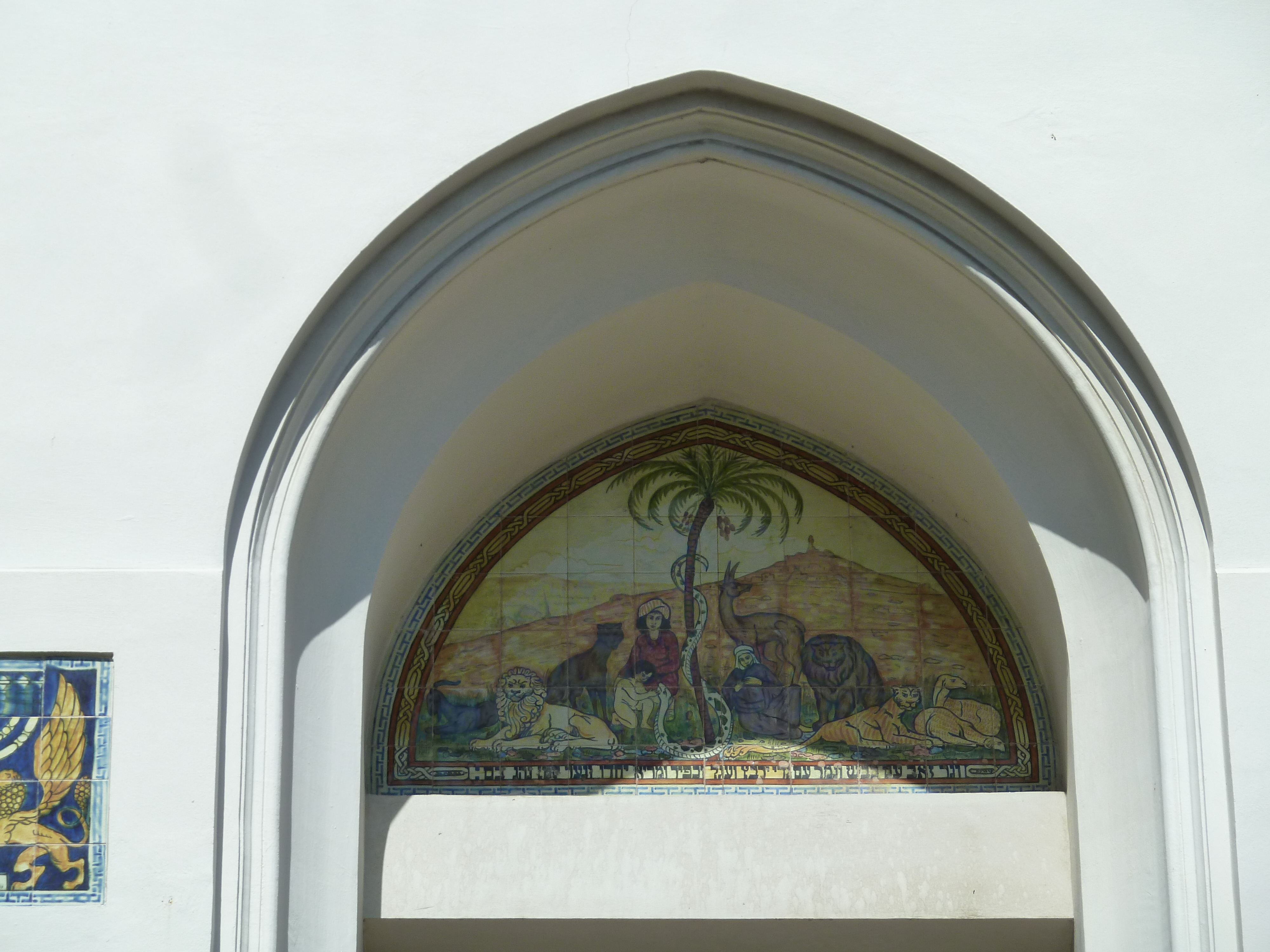 Ehad Haam School, Ehad Haam street, Tel Aviv